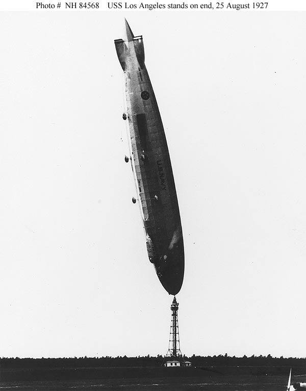 Airship USS Los Angeles (ZR-3) in a near-vertical position, after her tail rose out-of-control while she was moored at the high mast at Naval Air Station Lakehurst, New Jersey.